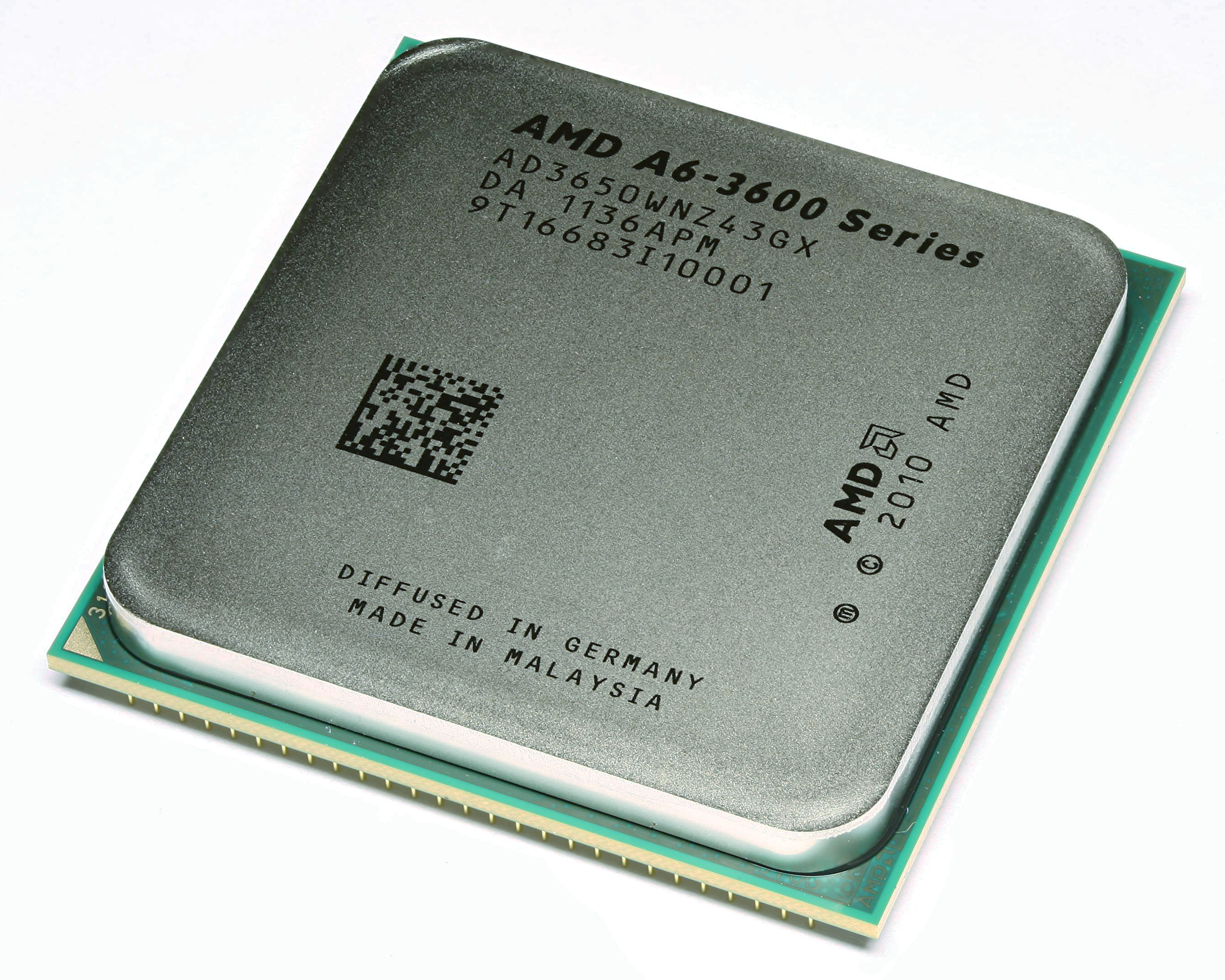 Top view of an AMD A6-3650 (AD3650WNZ43GX) CPU